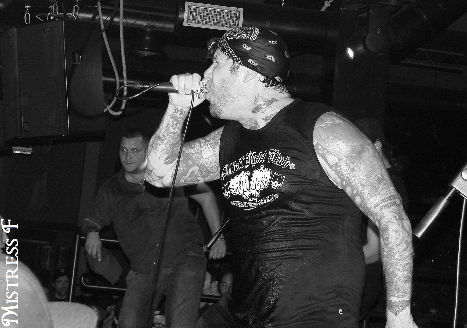 Roger Miret of Agnostic Front live in Rome, 23 nov 2007, alpheus.